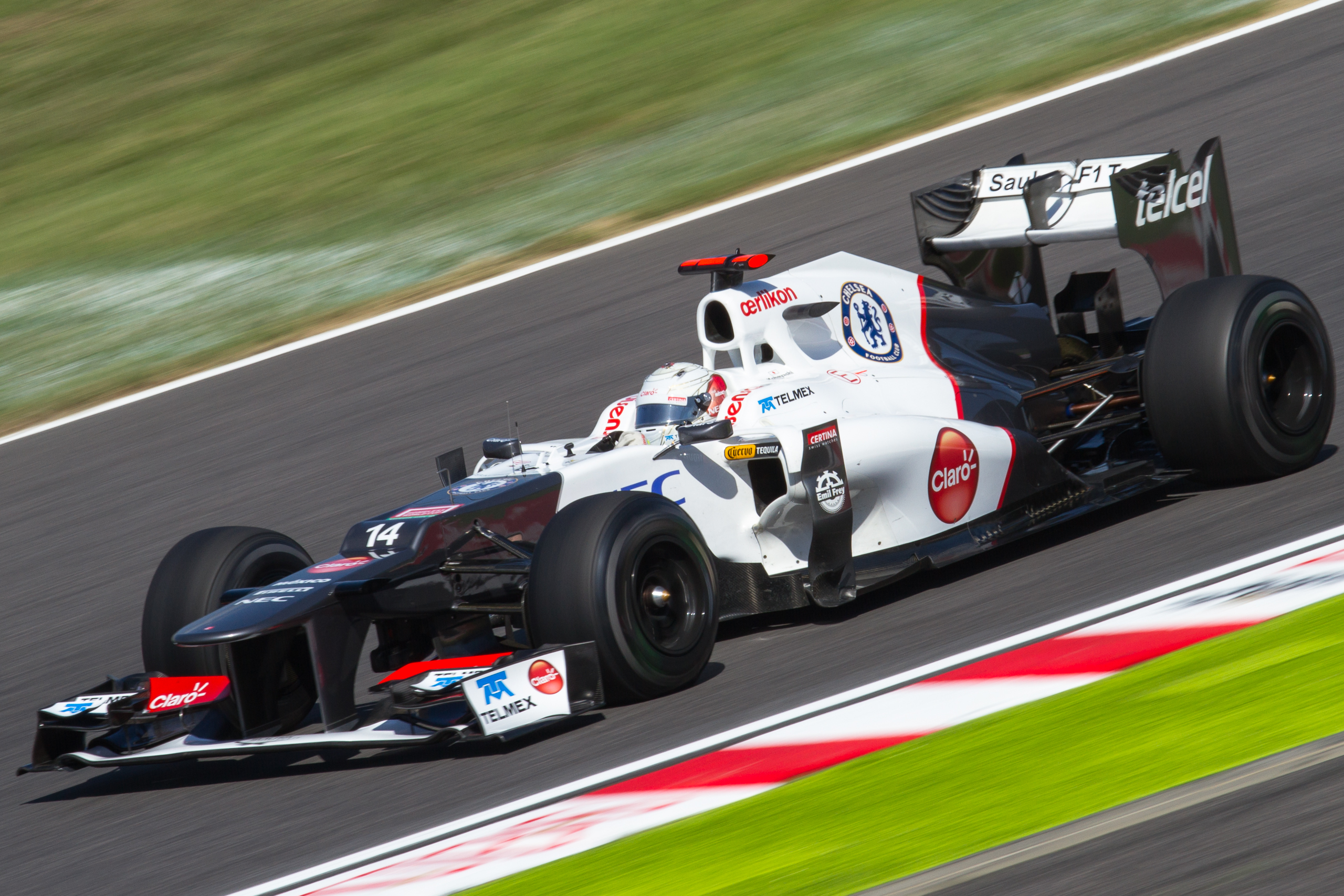 Formula One 2012 Rd.15 Japanese GP: Kamui Kobayashi (Sauber) during the first practice session on Friday.